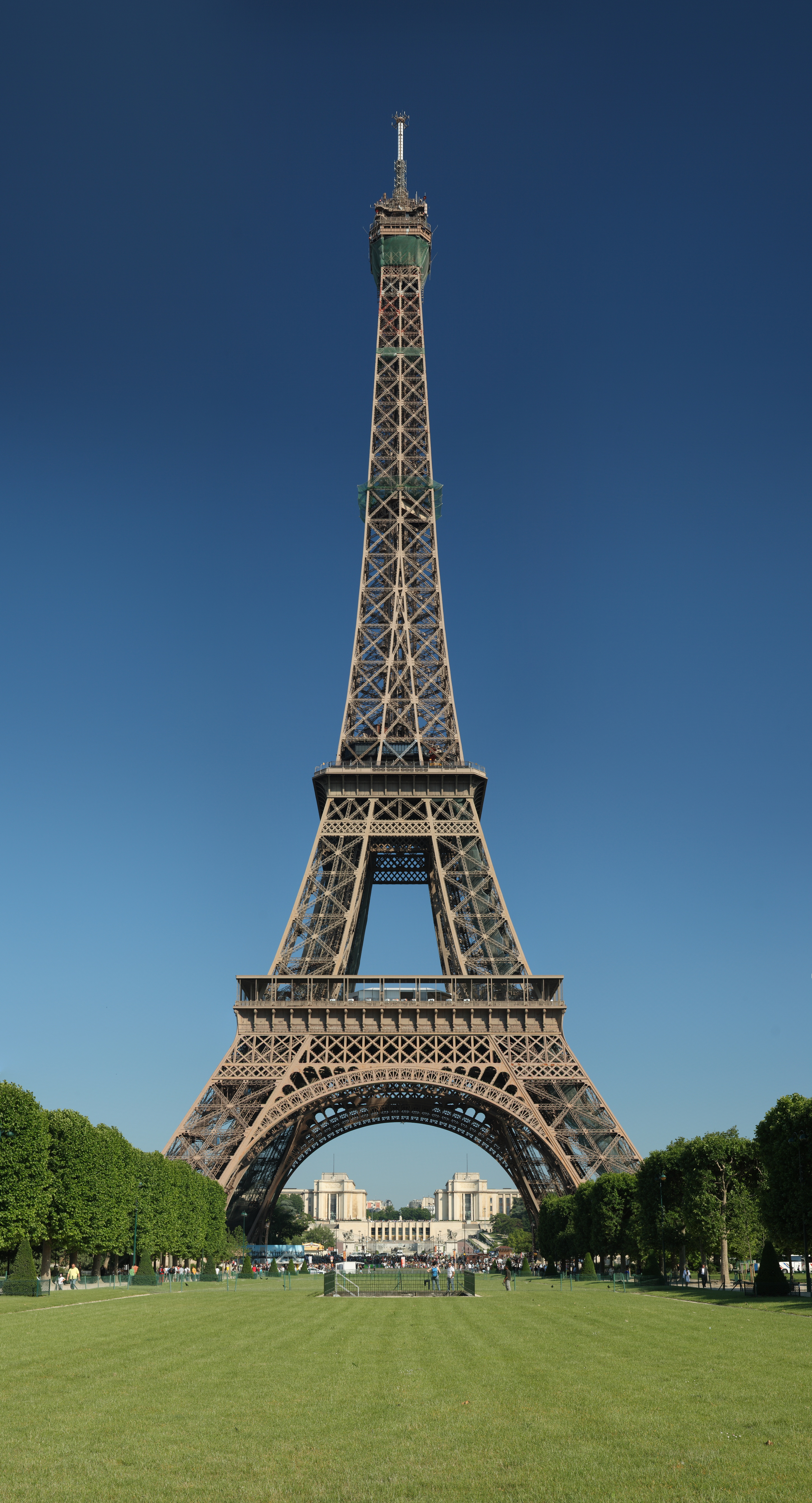 Eiffel Tower, seen from the Champ de Mars, Paris, France